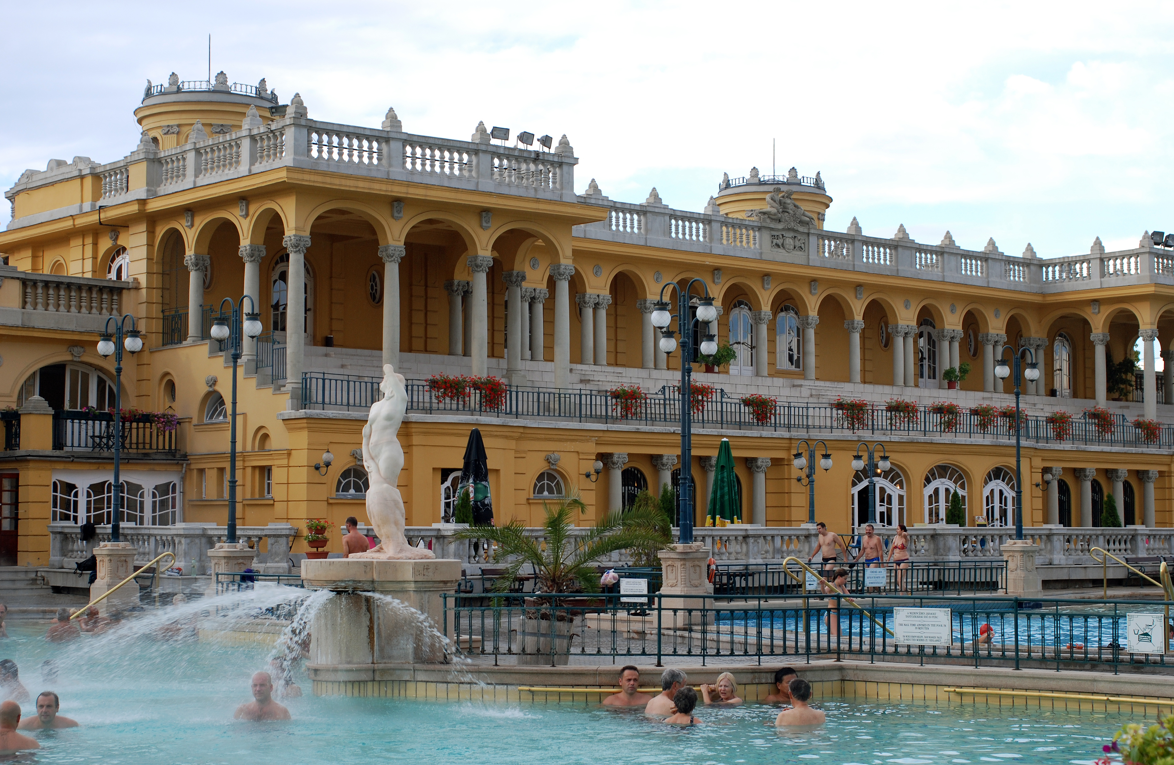 Budapest thermal spa Széchenyi Gyógyfürdő. Outside pool and main building.